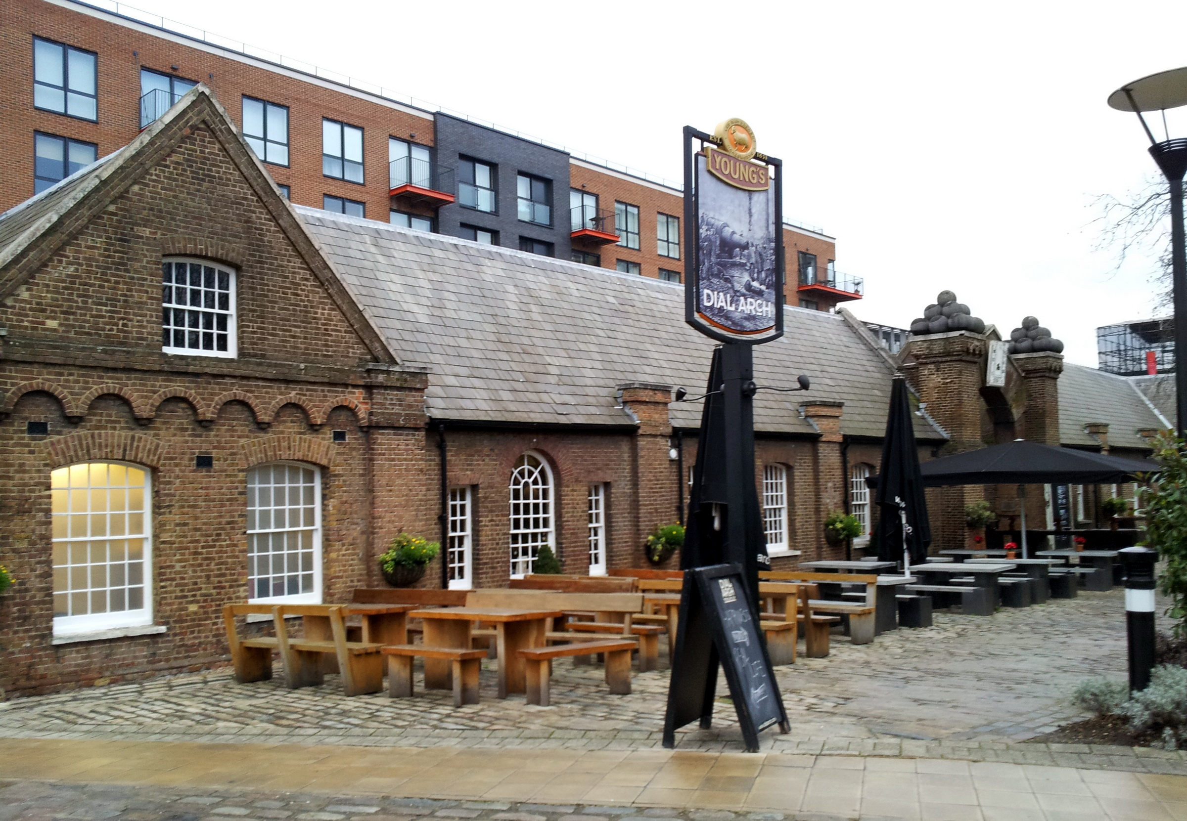 View of the Dial Arch pub in Royal Arsenal, Woolwich, South East London.